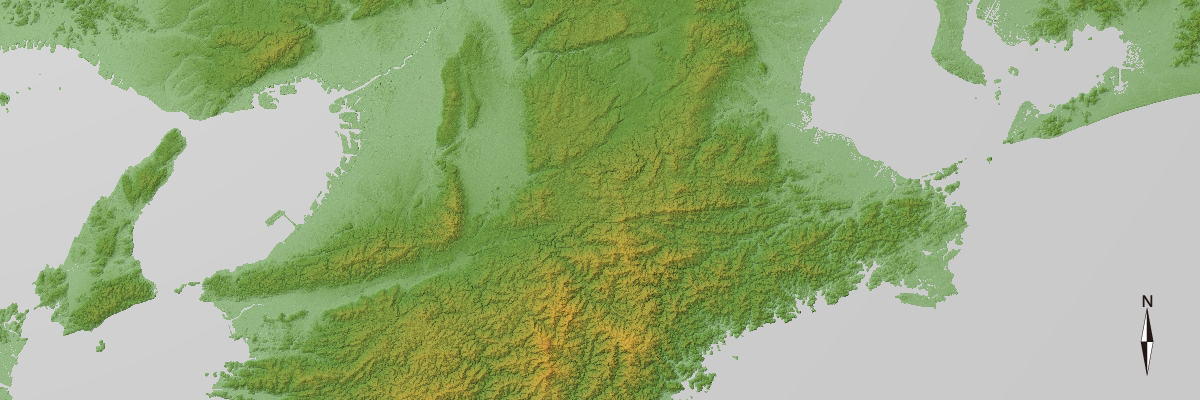 Japan Median Tectonic Line in Kansai region, Honshu, Japan.